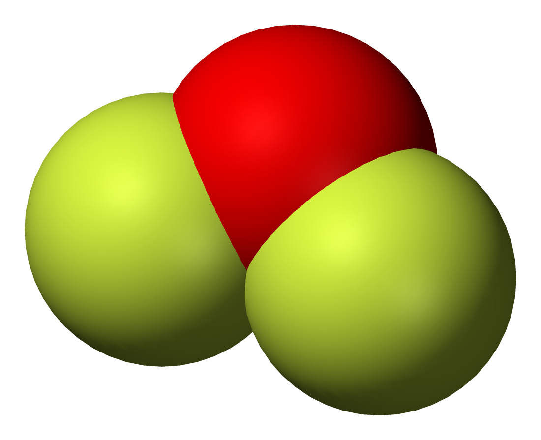 Space-filling model of the oxygen difluoride molecule, OF2.